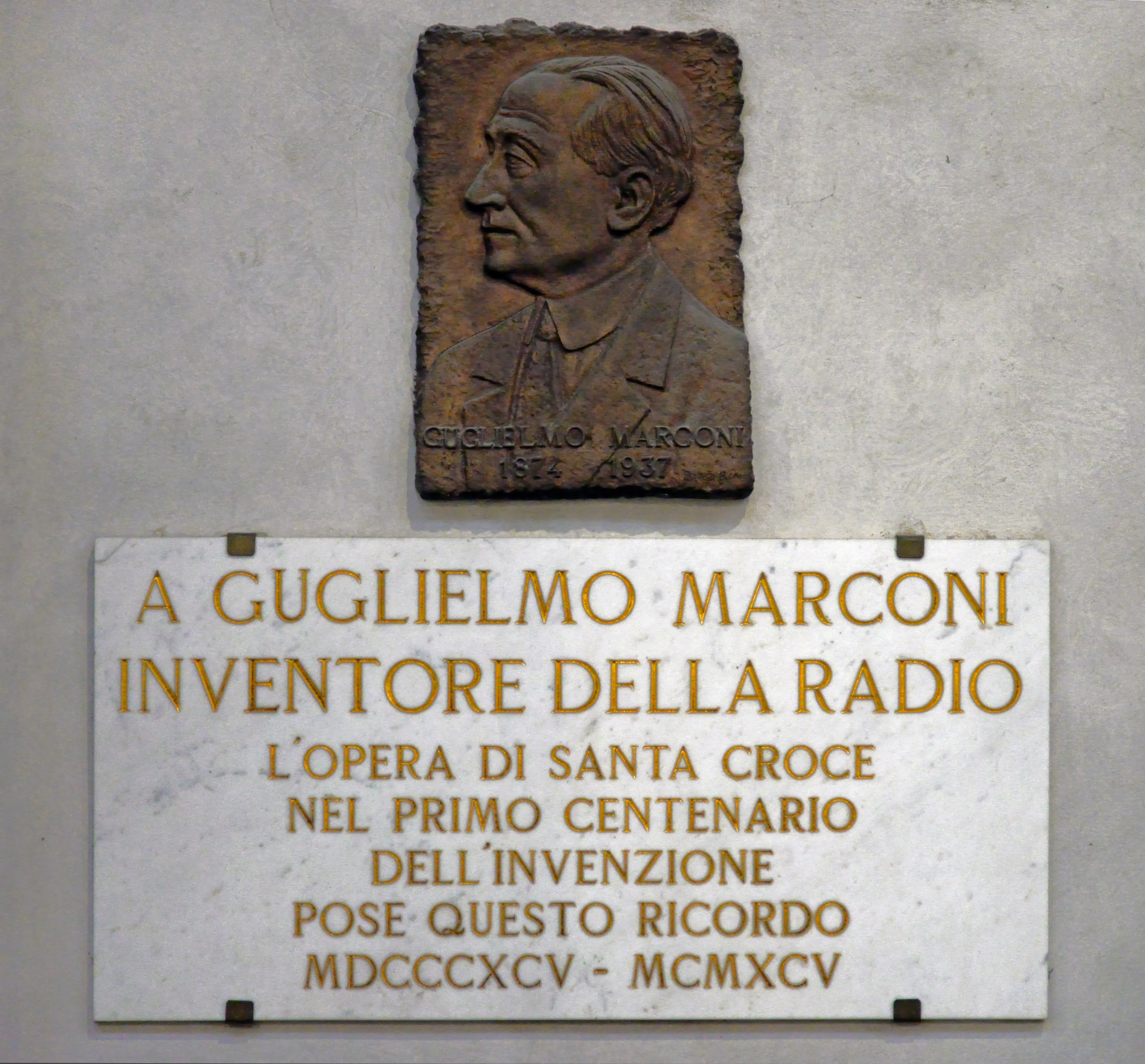 Memorial plaque in honour of Guglielmo Marconi in the Basilica Santa Croce, Florence. Italy